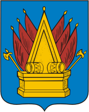 Tobolsk (Tyumen oblast), coat of arms (1785)